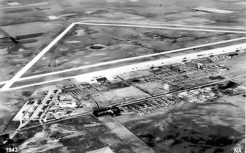 Great Bend Army Airfield KS 1943